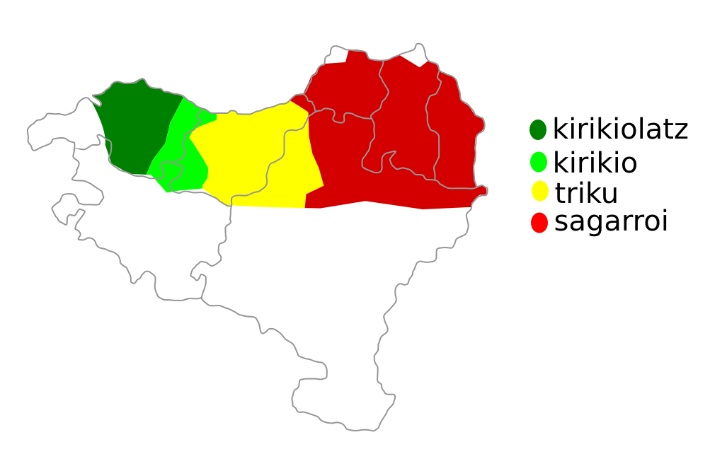 Isoglosses for the Basque name of the Hedgehog